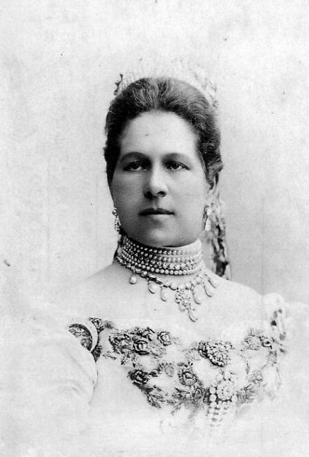 Princess Isabelle of Croy-Dülmen